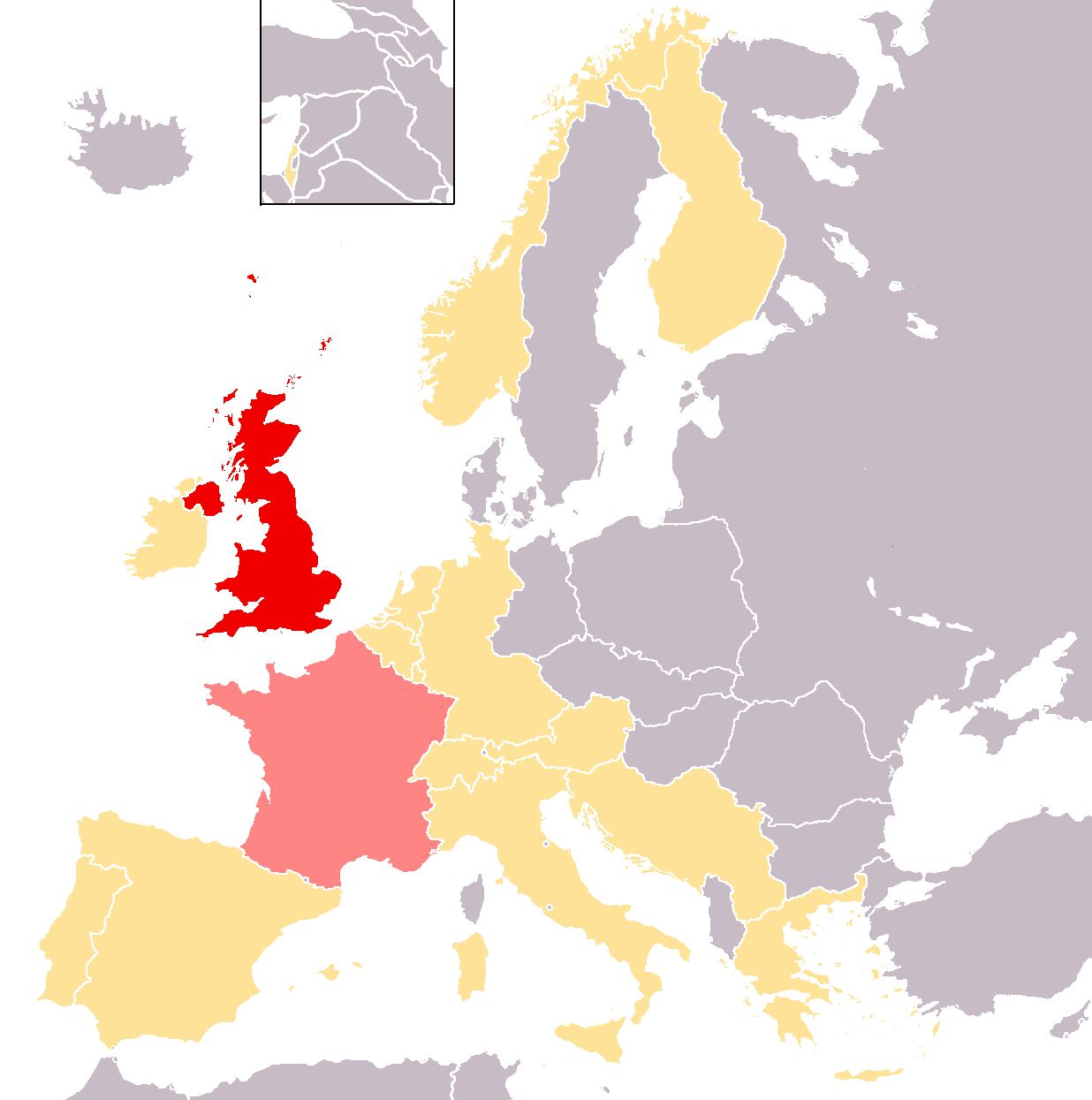 Map of Eurovision 1976